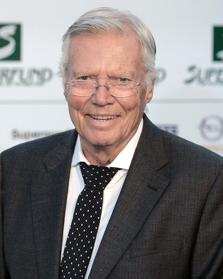 Karlheinz Böhm at the "green carpet" for the Save the World Awards 2009 (Zwentendorf Nuclear Power Plant, Lower Austria).